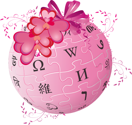 Wikipedia Women's Day